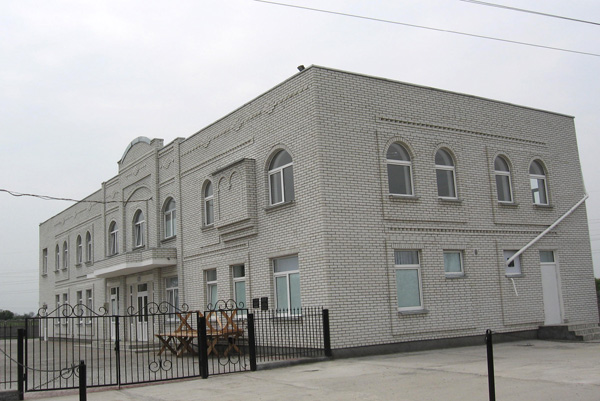 Jewish hostel with the sinagogue, Belz.